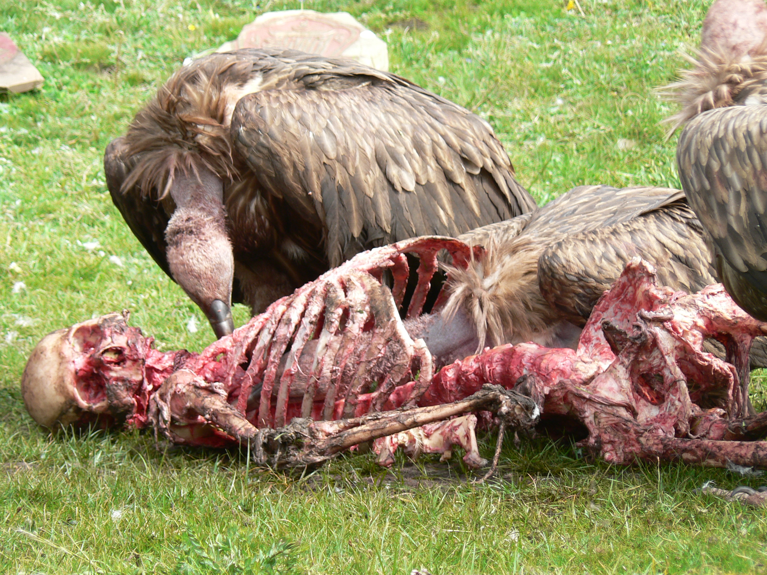 FishOil at en.wikipedia, the copyright holder of this work, hereby publishes it under the following licenses: Attribution: FishOil at en.wikipedia